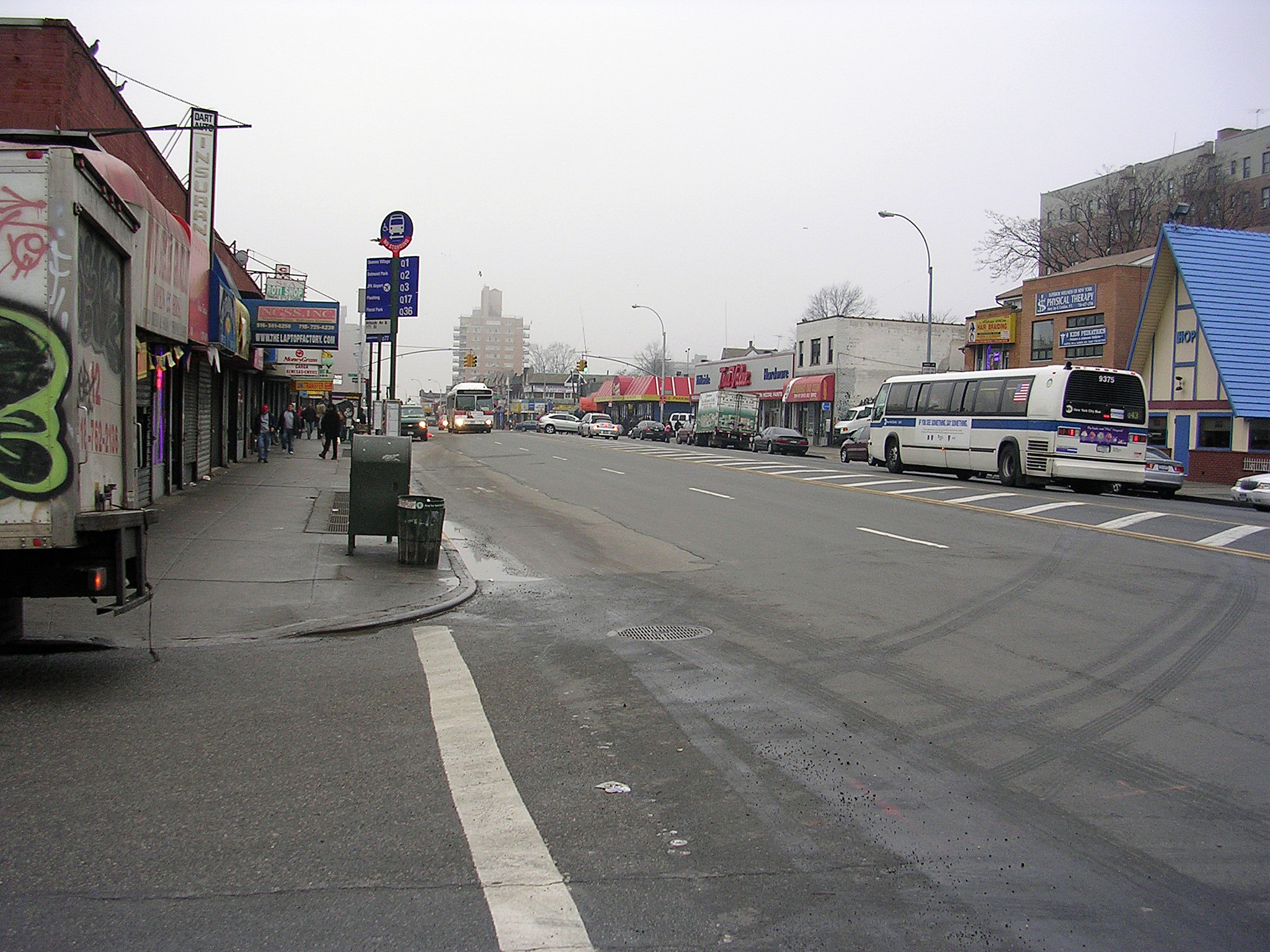 Bus Station by David Shankbone, January 15, 2007.